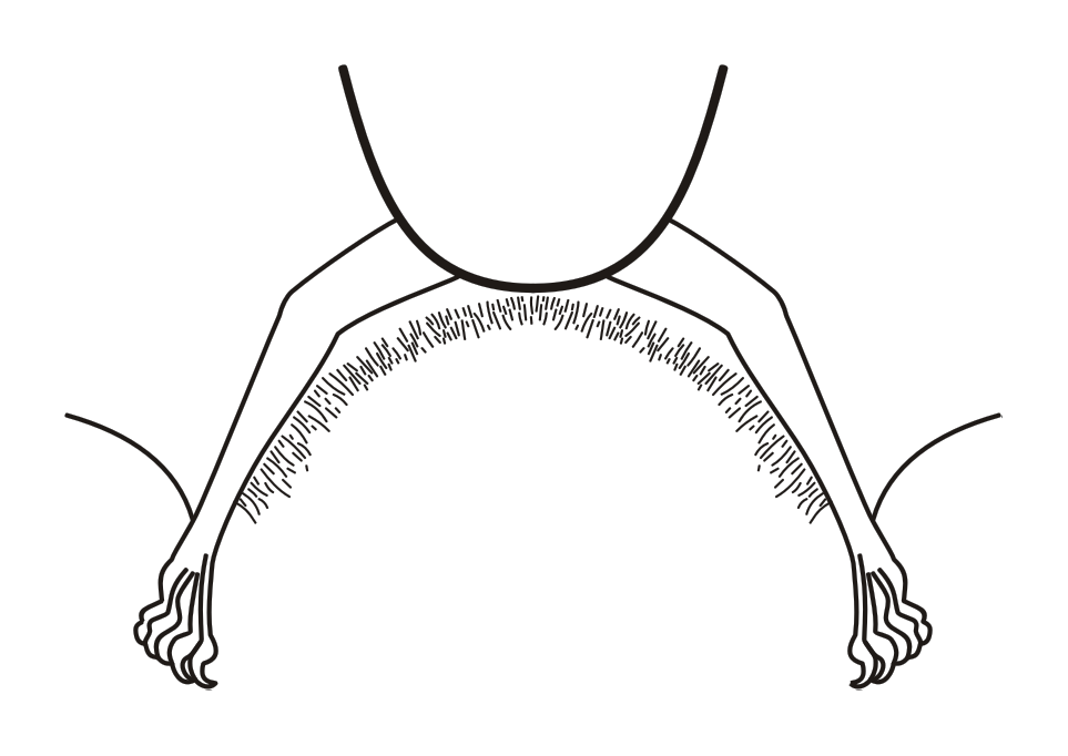 According to Husson, 1962 shows interfemoral membranes, calcar, feet and tail in bats of genus Sturnira